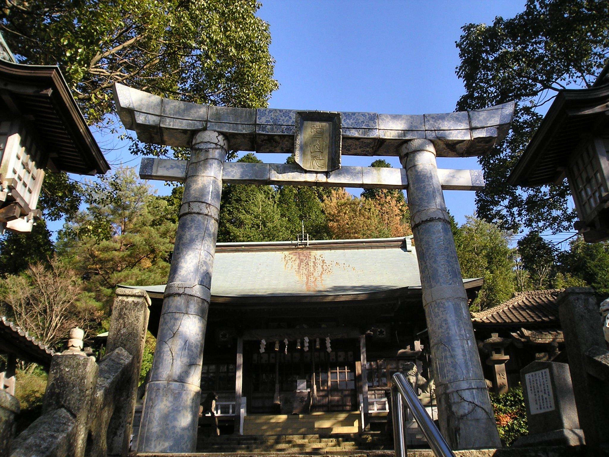 A torii at Tozan Shrine at Arita Town, Saga, Japan. It had been designated Tangible Cultural Properties on April 28, 2000.